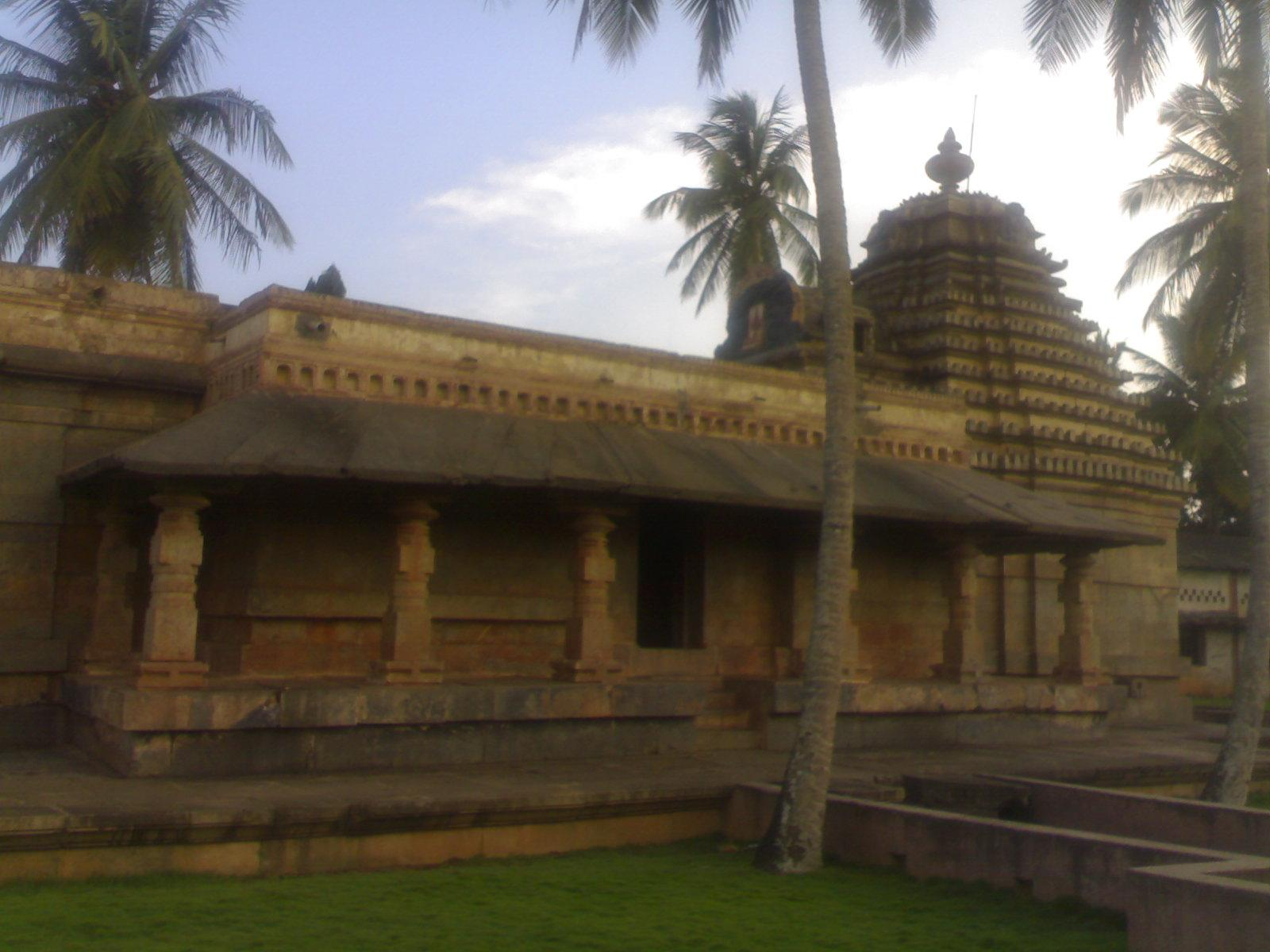 Halasi